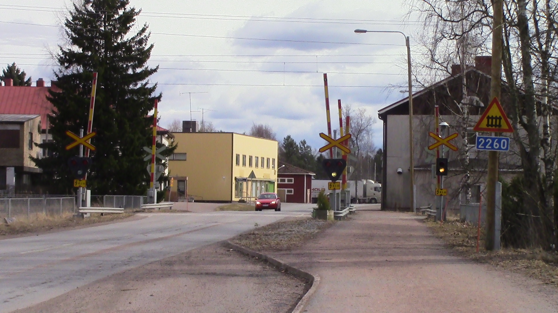 Finnish connecting road 2260 at Mellilä in Loimaa. In the picture you are also able to see Mellilä level crossing, where's also another of two only pair-barrier devices that you can find in Finland.